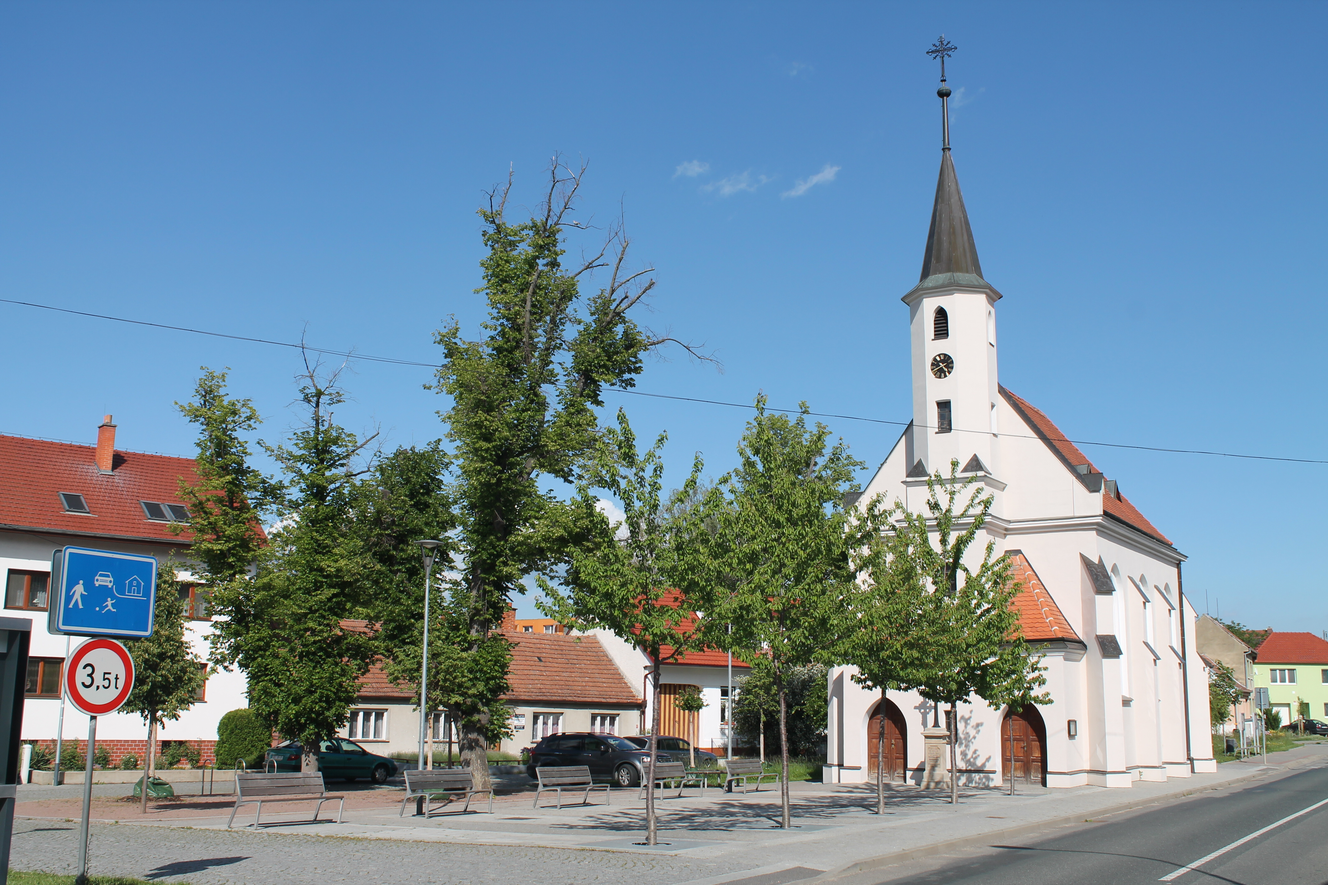 U Kaple square, Ostopovice, Brno-Country District, Czech Republic